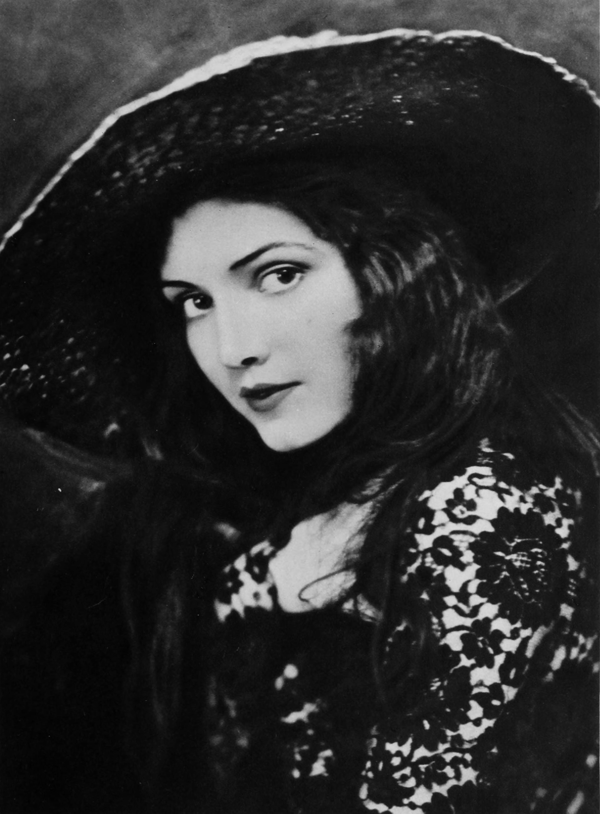 Actress Katherine Perry (1897–1983) on page 11 of the August 1921 Photoplay magazine.